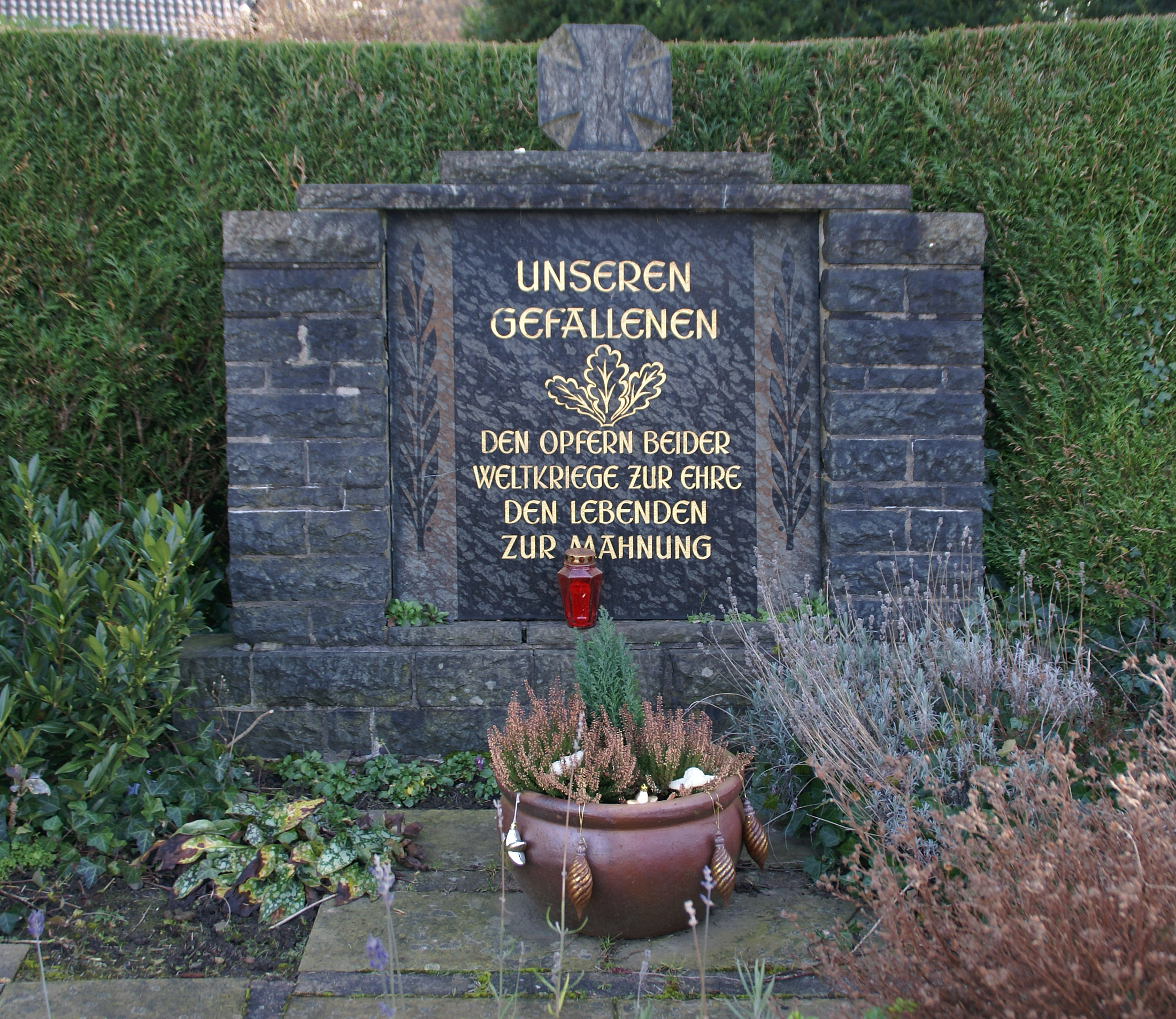 Rauschendorf, Heinrich-Kurscheid-Platz: war memorial